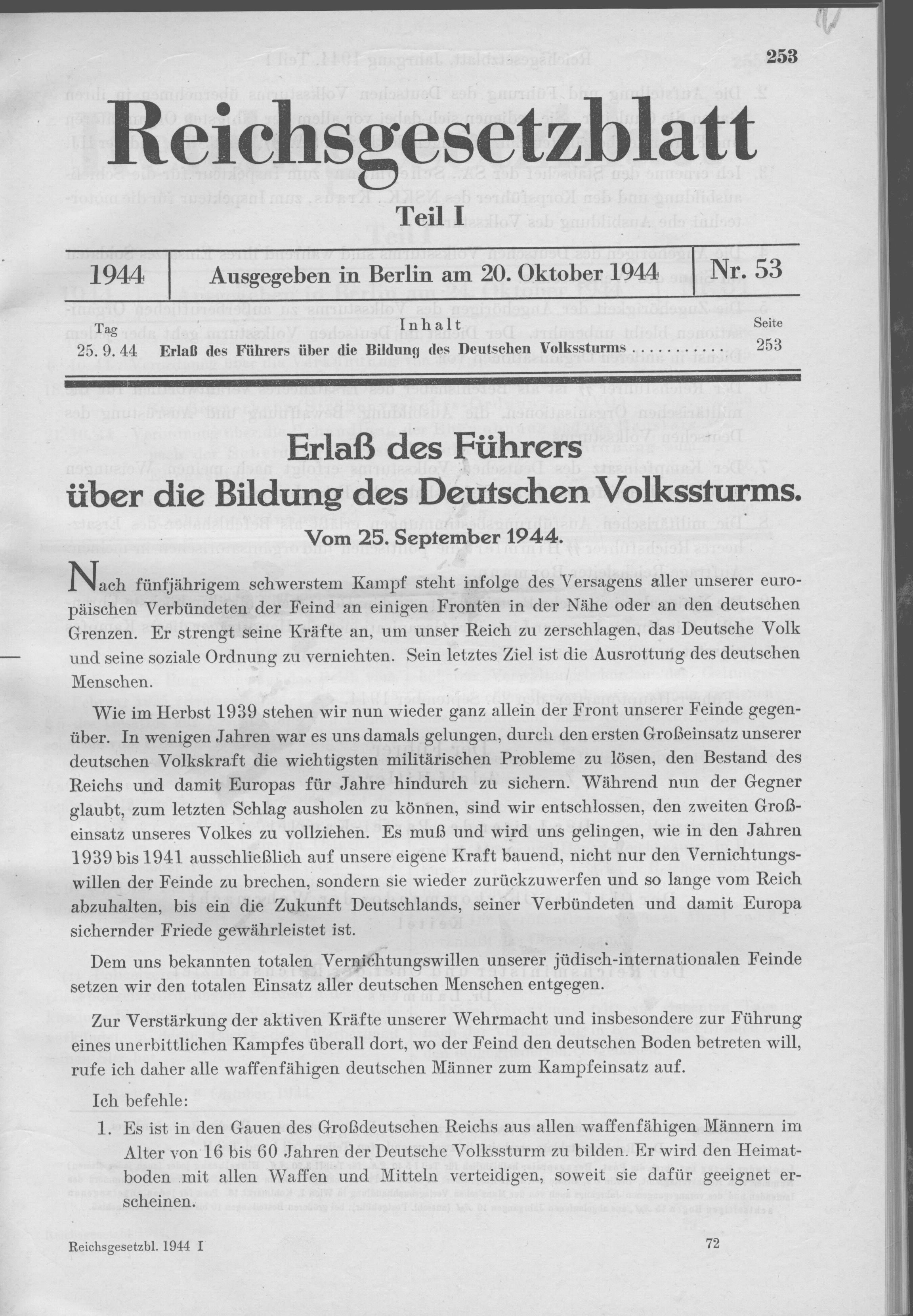 Scan from the Imperial Law Gazette of Germany, 1944, part 1